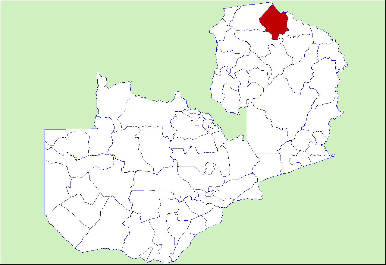 District locator in Zambia